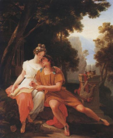 Auguste Jean Baptiste Vinchon, "Propertius and Cynthia at Tivoli"